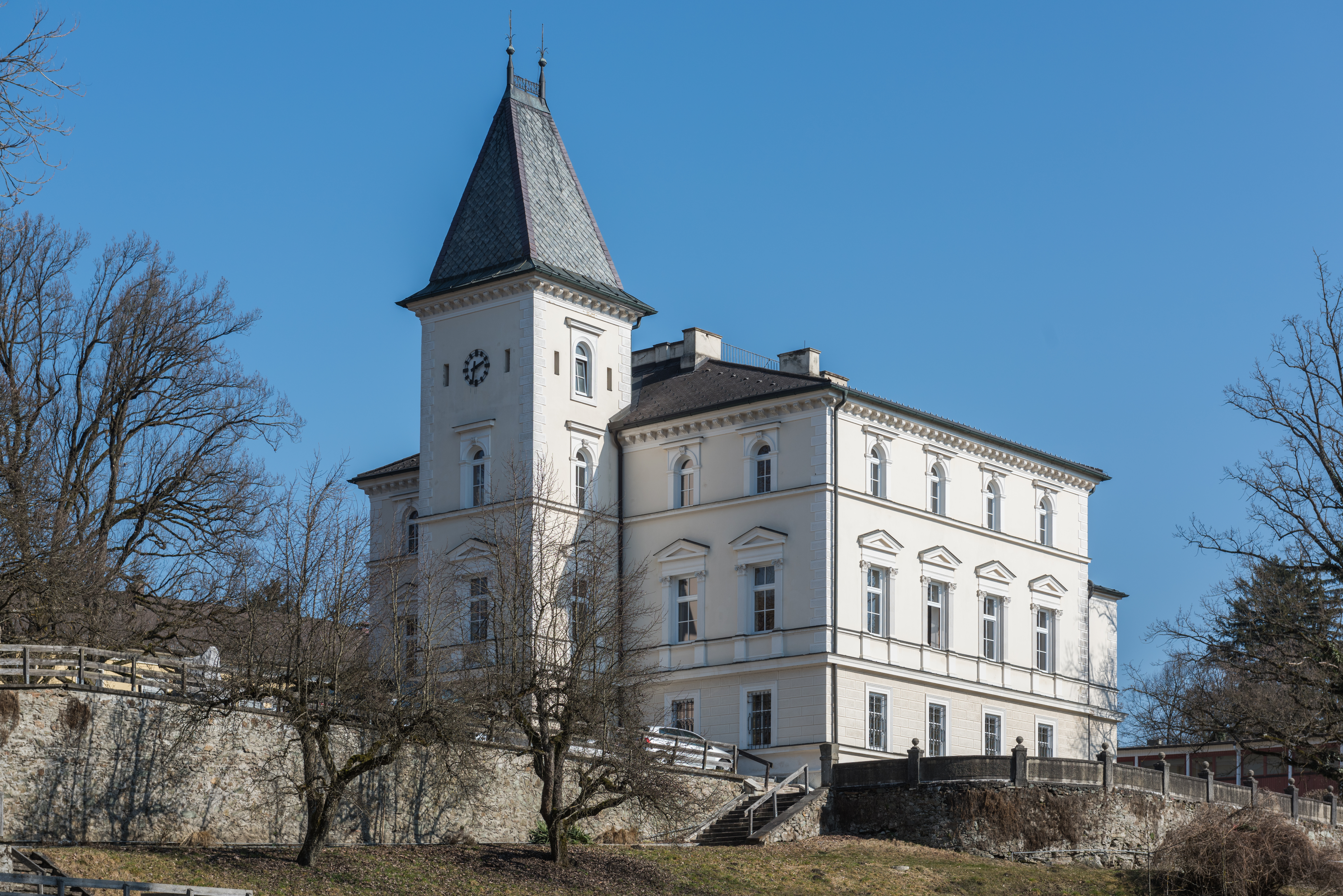 Castle Krastowitz, Krastowitz #1, Welzenegg, 10th district «Sankt Peter», municipality Klagenfurt, Carinthia, Austria, EU